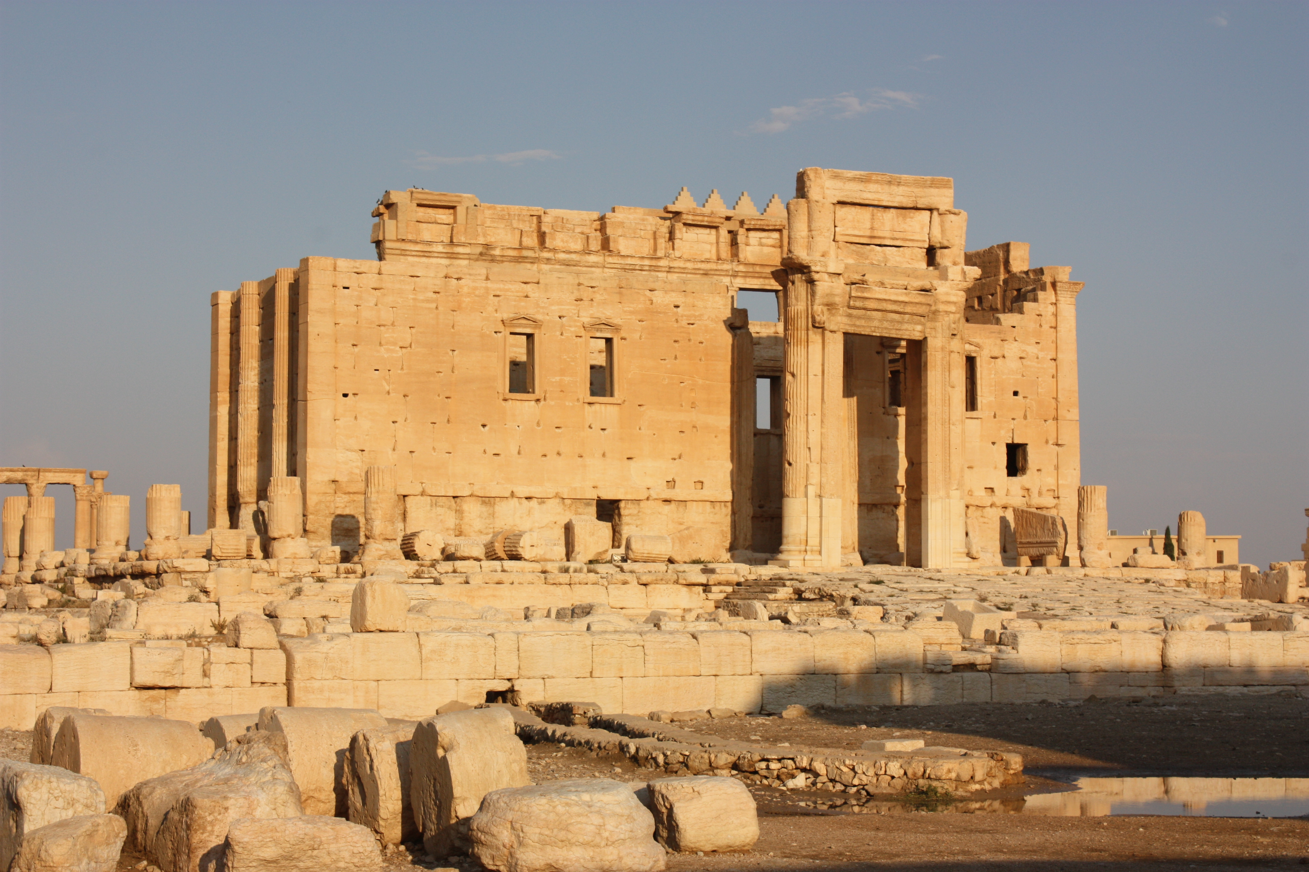 Palmyra, Temple of Bel, from north-west